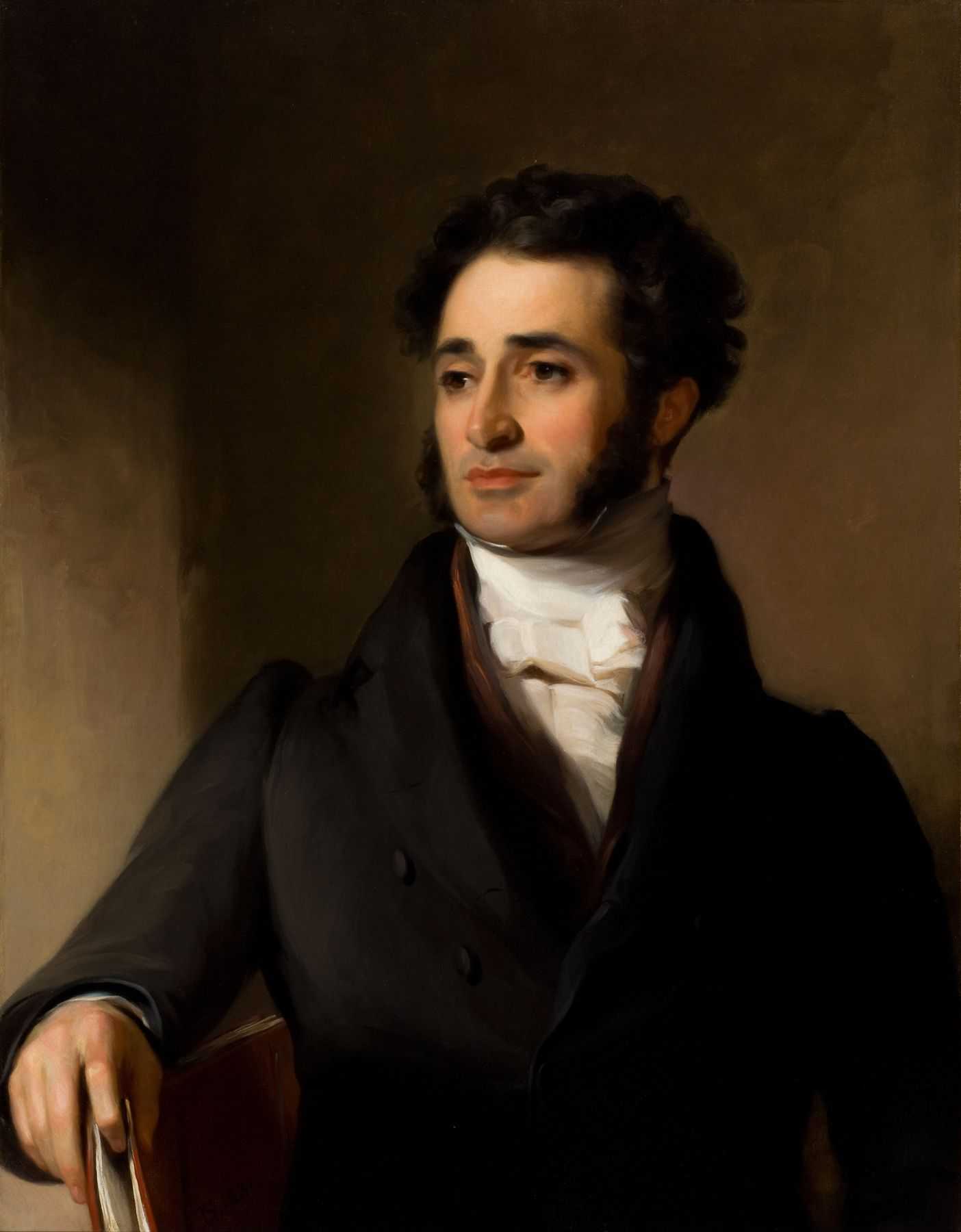 "Jared Sparks," by American artist Thomas Sully, oil on canvas. Courtesy of Reynolda House Museum of American Art, Winston-Salem, North Carolina.